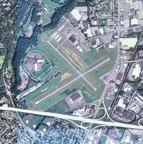 USGS digital orthophoto of Allentown Queen City Municipal Airport - Pennsylvania.